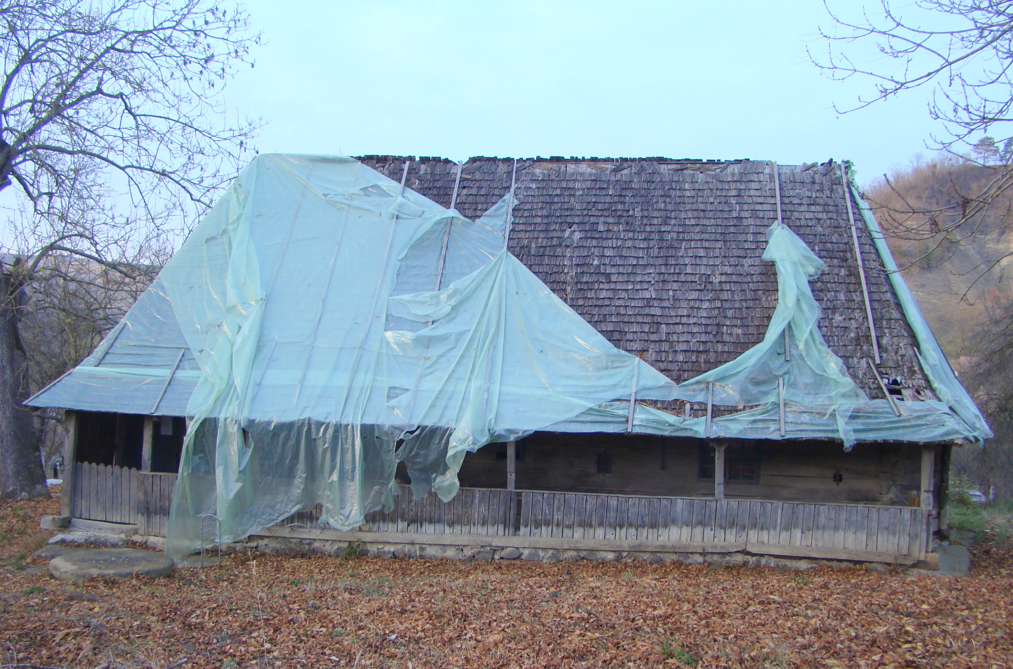 Wooden church in Petea, Mureş county, Romania